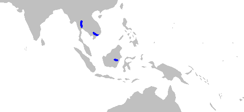 Range of the marbled whipray (Himantura oxyrhyncha).